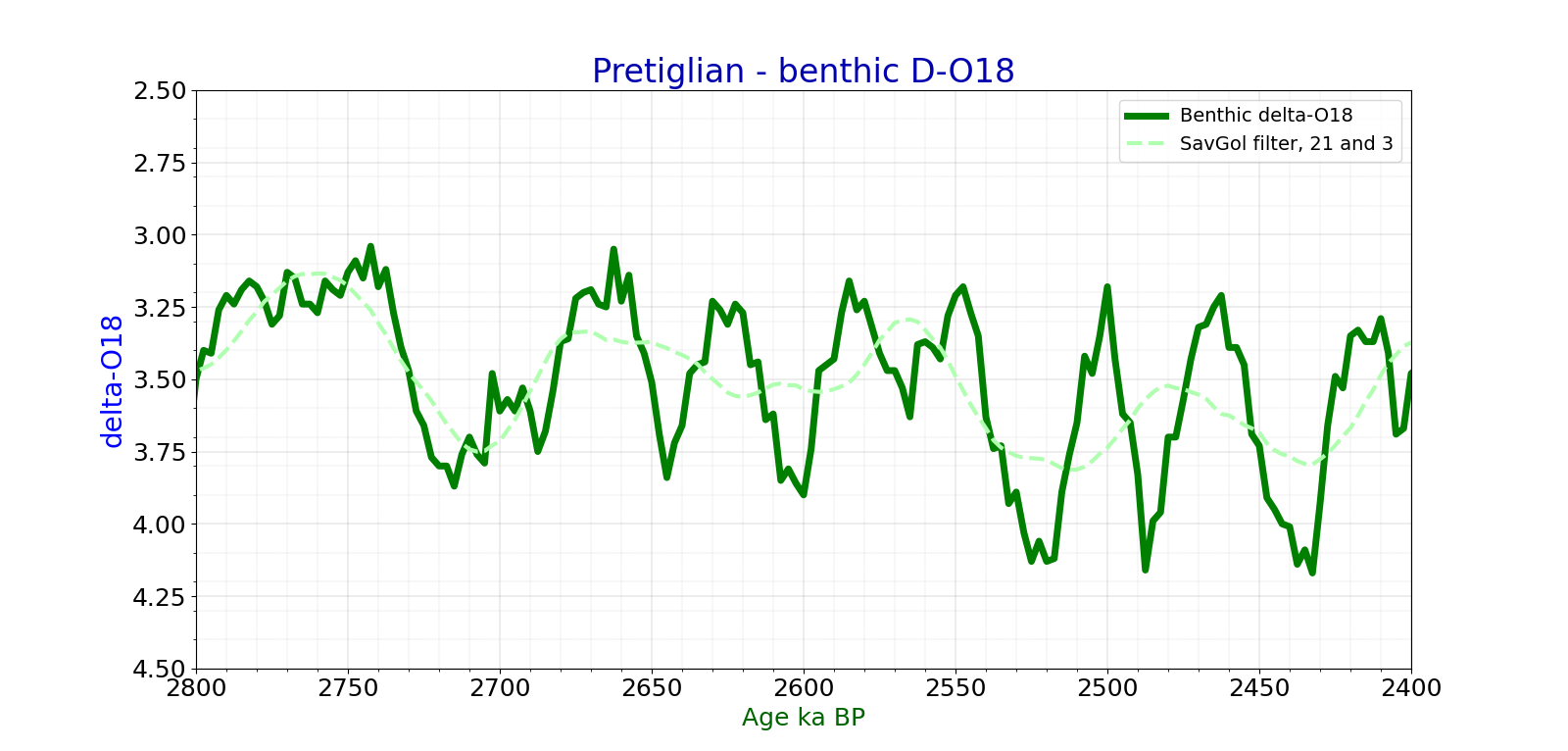 Pretiglian(pretegelen) cold stage oxygen isotope curve drawn from Lisiecki % Raymo 2005 LR04 data Please cite: Lisiecki, L. E., and M. E. Raymo (2005), A Pliocene- Pleistocene stack of 57 globally distributed benthic d18O records, Paleoceanography,20, PA1003, The data file is on